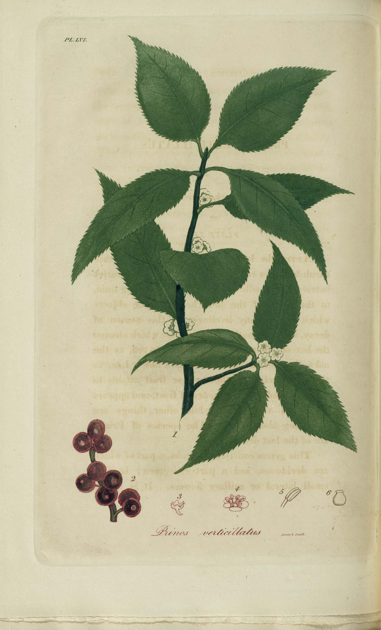 Plate illustration from: Jacob Bigelow. American medical botany: being a collection of the native medicinal plants of the United States. Boston: Cummings and Hilliard, 1817-1820. 3 volumes.